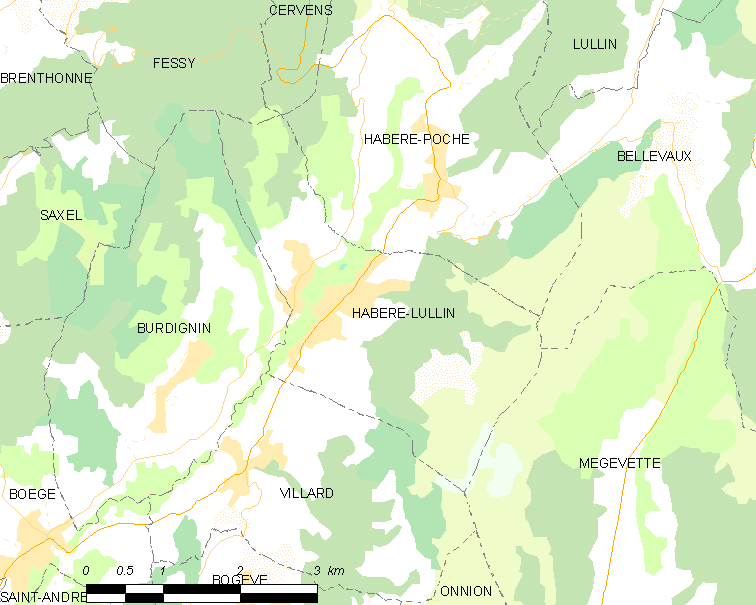 Map of French municipality Habère-Lullin